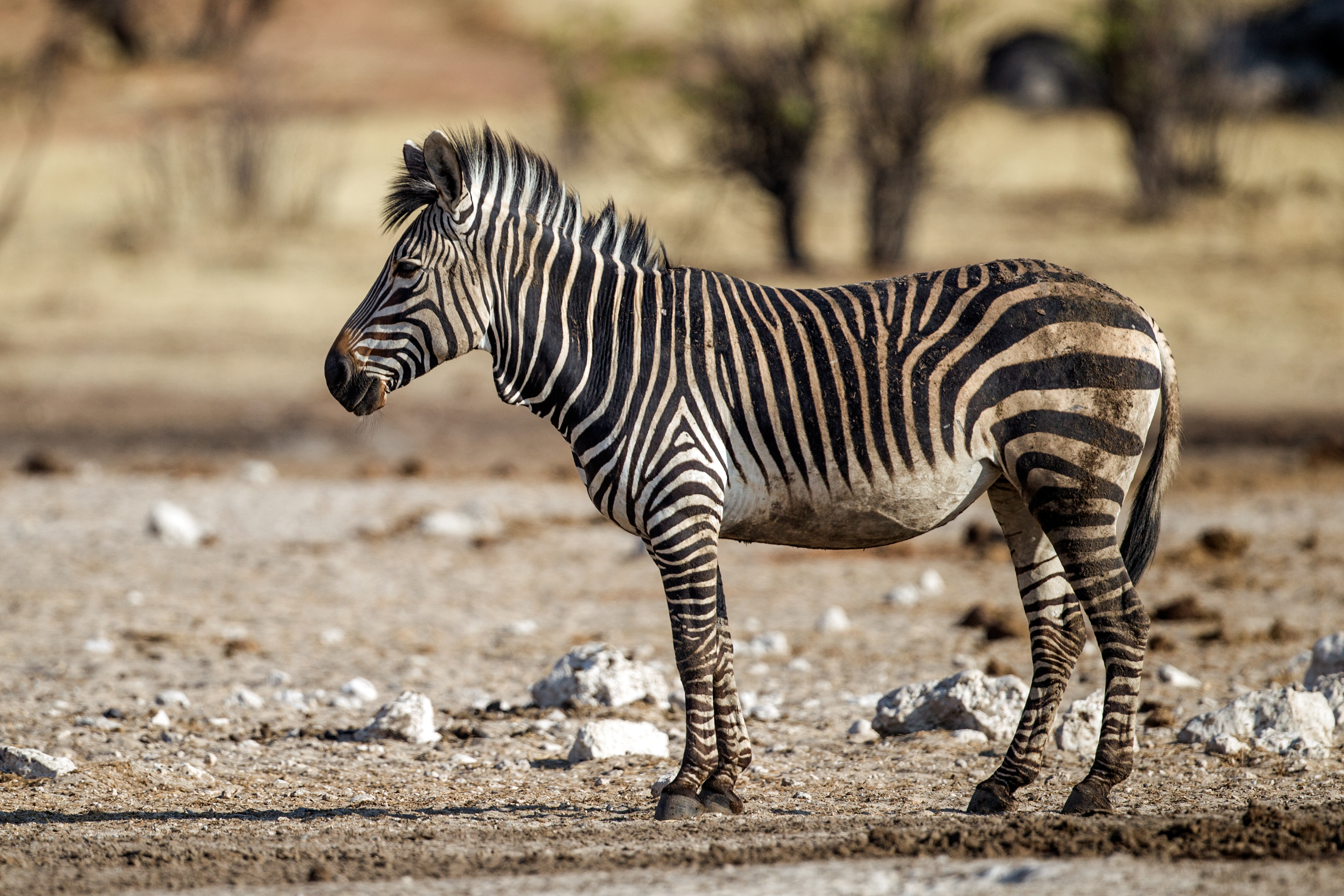 Hartmann's mountain zebra in Etosha National Park.